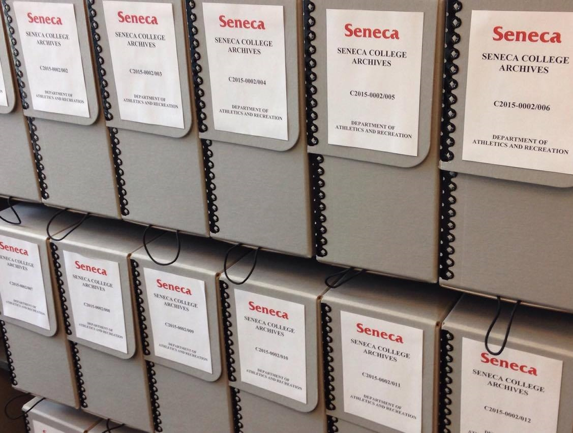 Seneca College Archives, Markham Campus